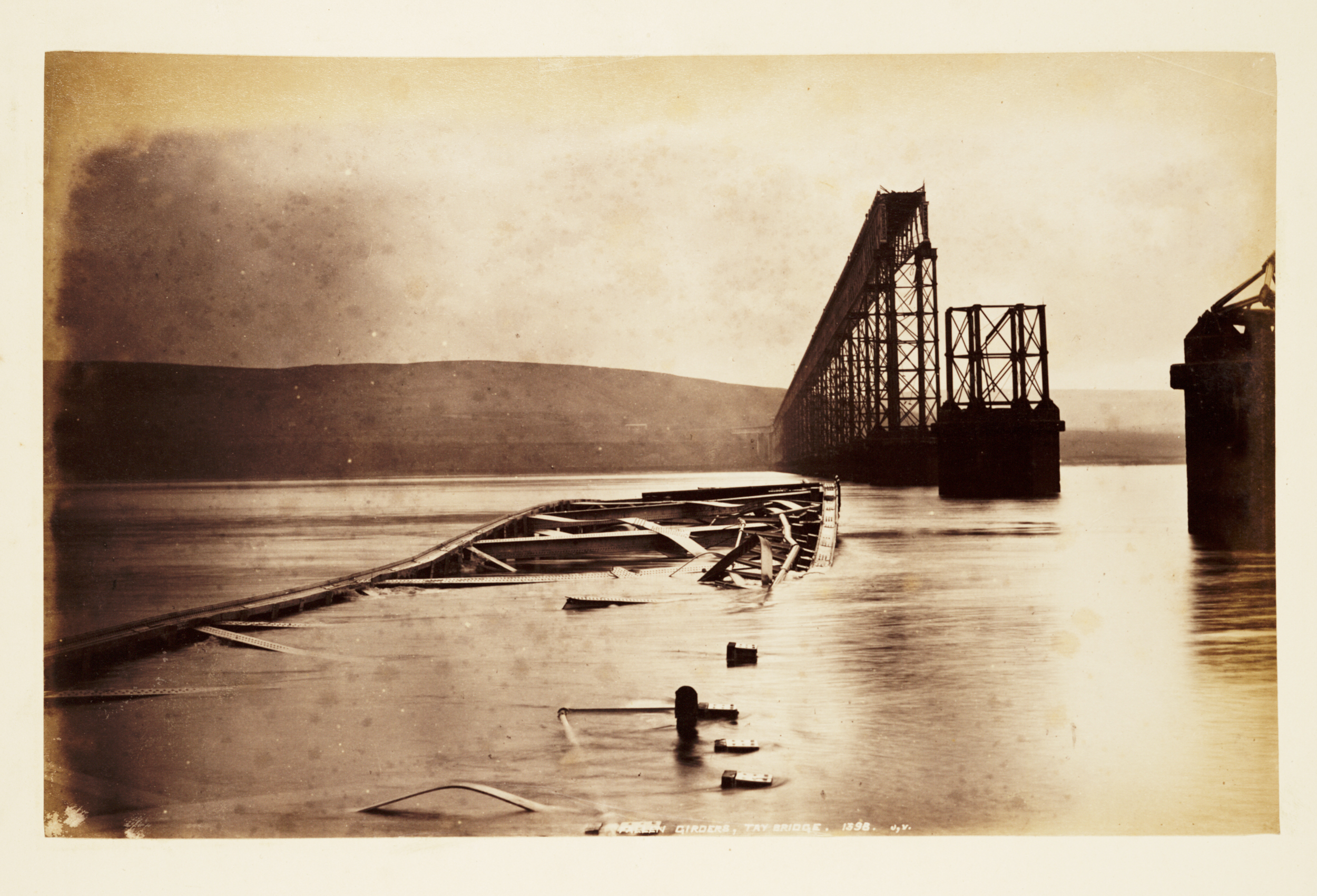 Photograph of fallen girders after collapse of part of the first Tay Bridge.